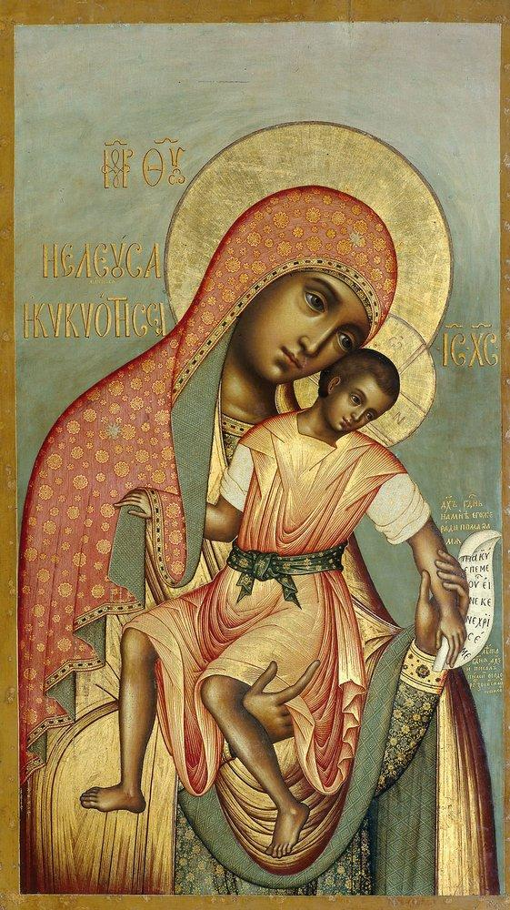 Our Lady of Eleus, 1668, tempera on wood, 130x76 cm, Tretyakov Gallery